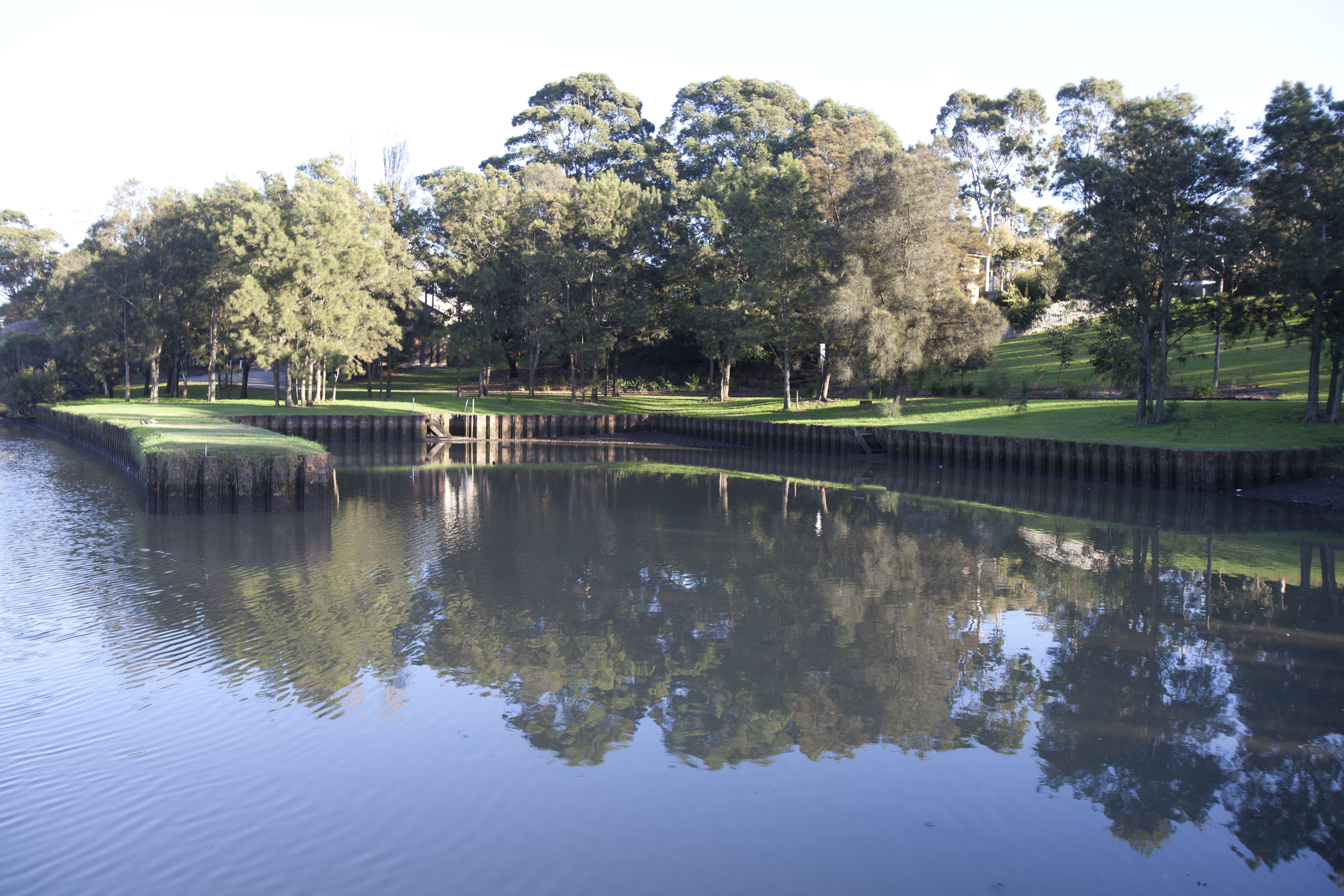 Boat Harbour, Hurlstone Park, NSW, Australia